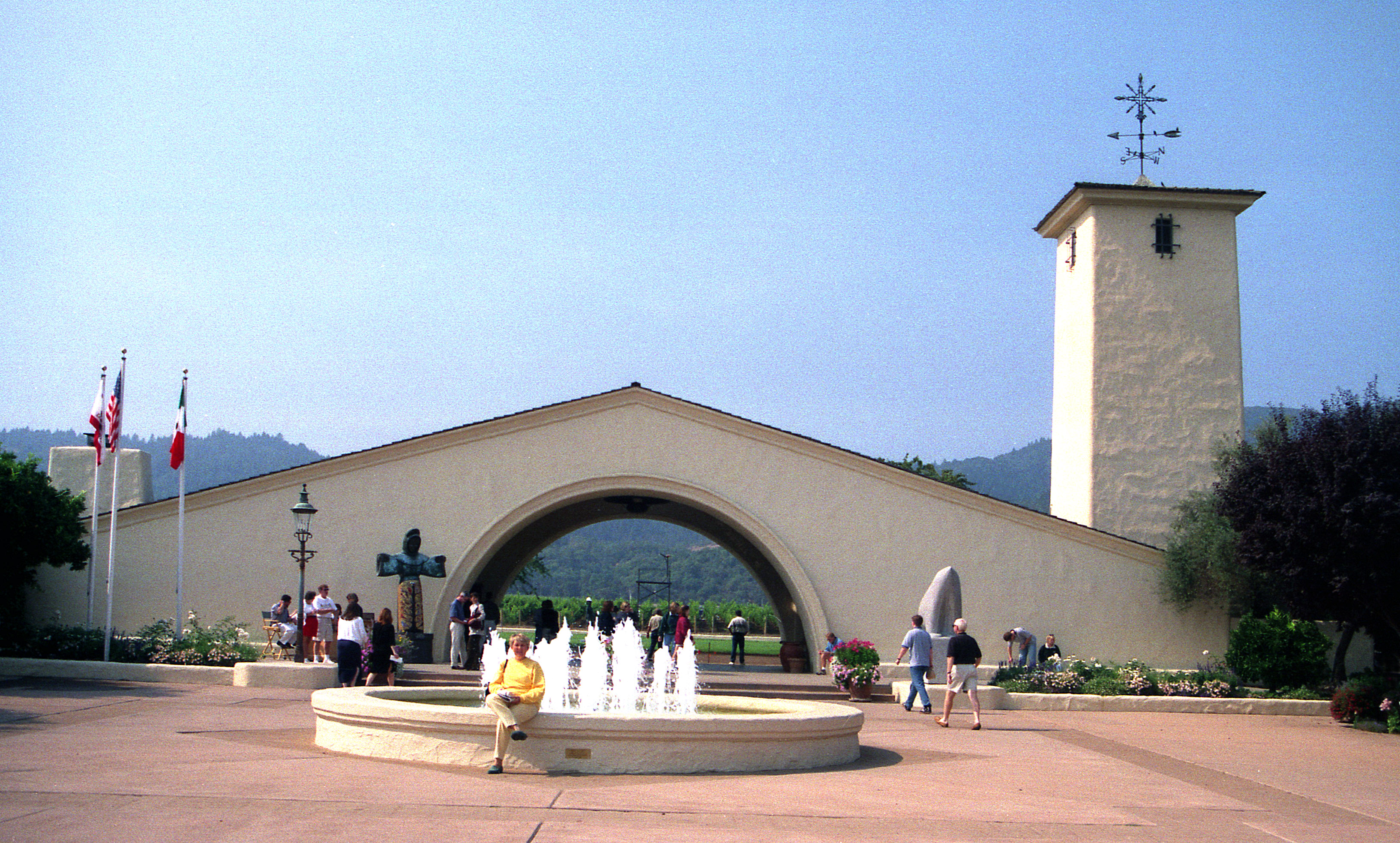 Robert Mondavi Winery, Napa Valley, California. Located in Oakville, California, the Mondavi Winery was built in 1966 and designed in the California mission-style. [1]